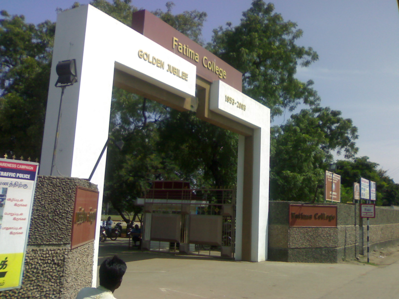 Facade of the Fatima college for women, Madurai, India.